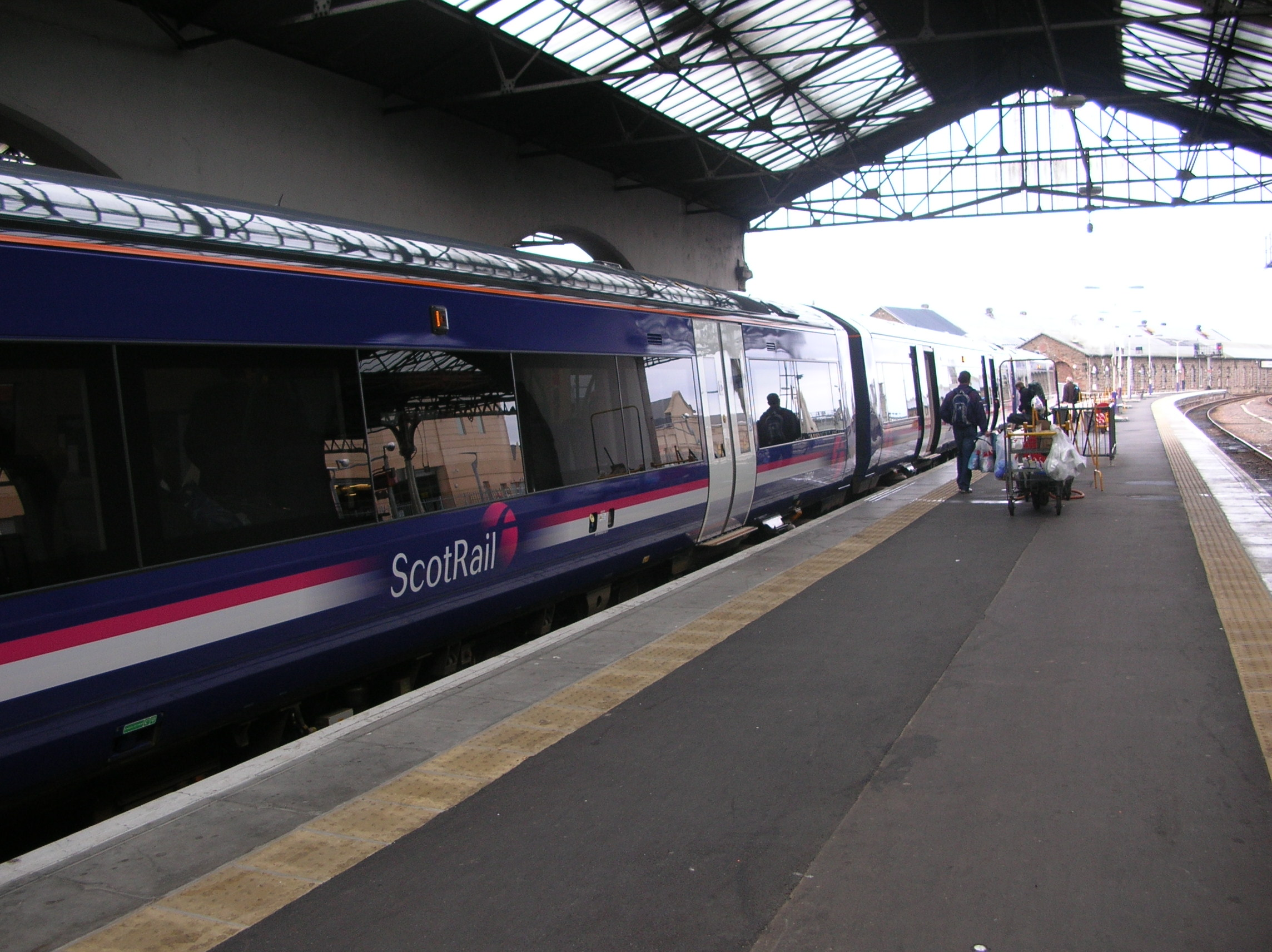 First ScotRail Class 170 (170434?) train in Inverness